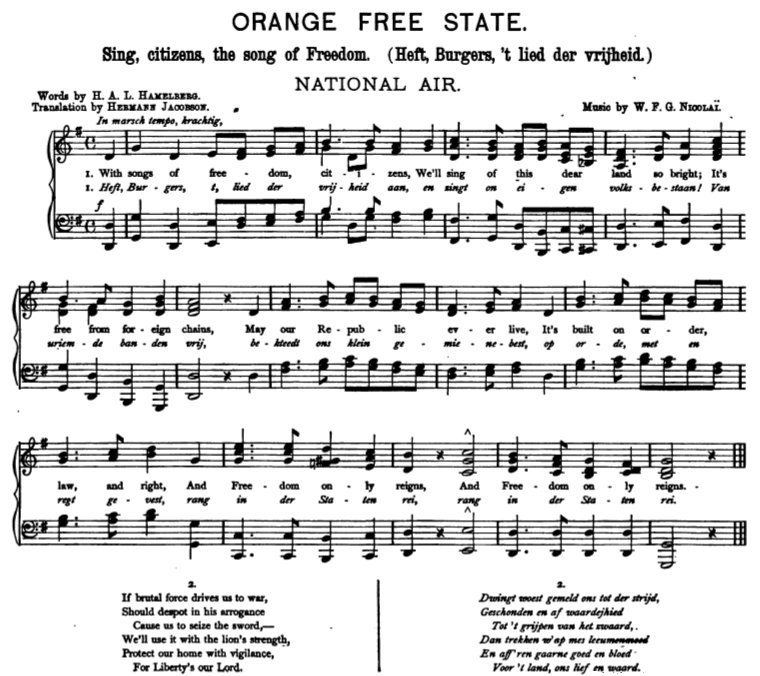 National Anthem of the Orange Free State. From page 180 of the book National, Patriotic and Typical Airs of all Lands by John Philip Sousa, First published 1890. Out of copyright